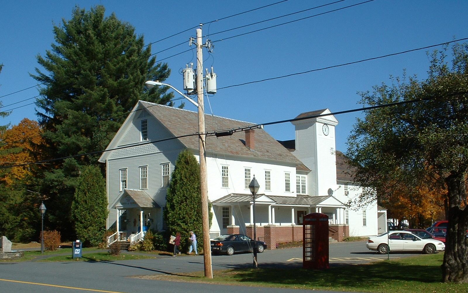 Rowe Town Hall, Rowe, Massachusetts Rowe Town Hall, Zoar Rd, Rowe, MA